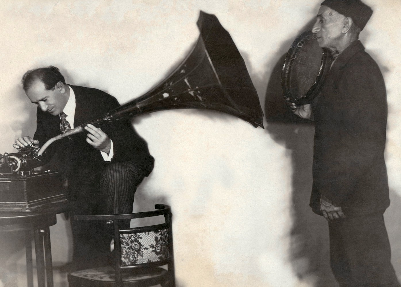 Jabbar Garyaqdioglu and Bulbul